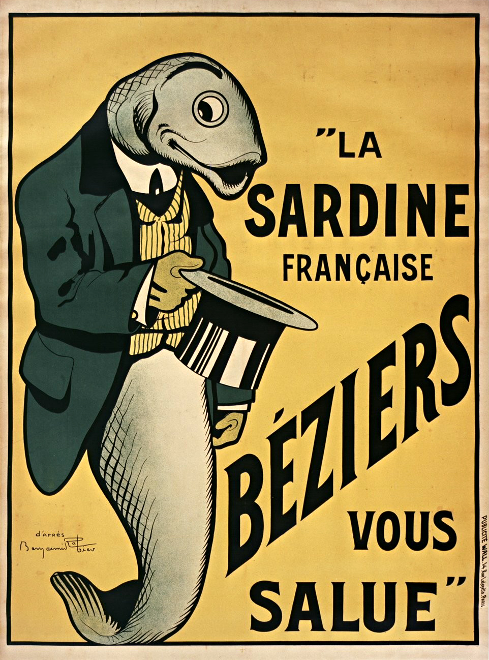 Lithographed poster, 158 x 117 cm.